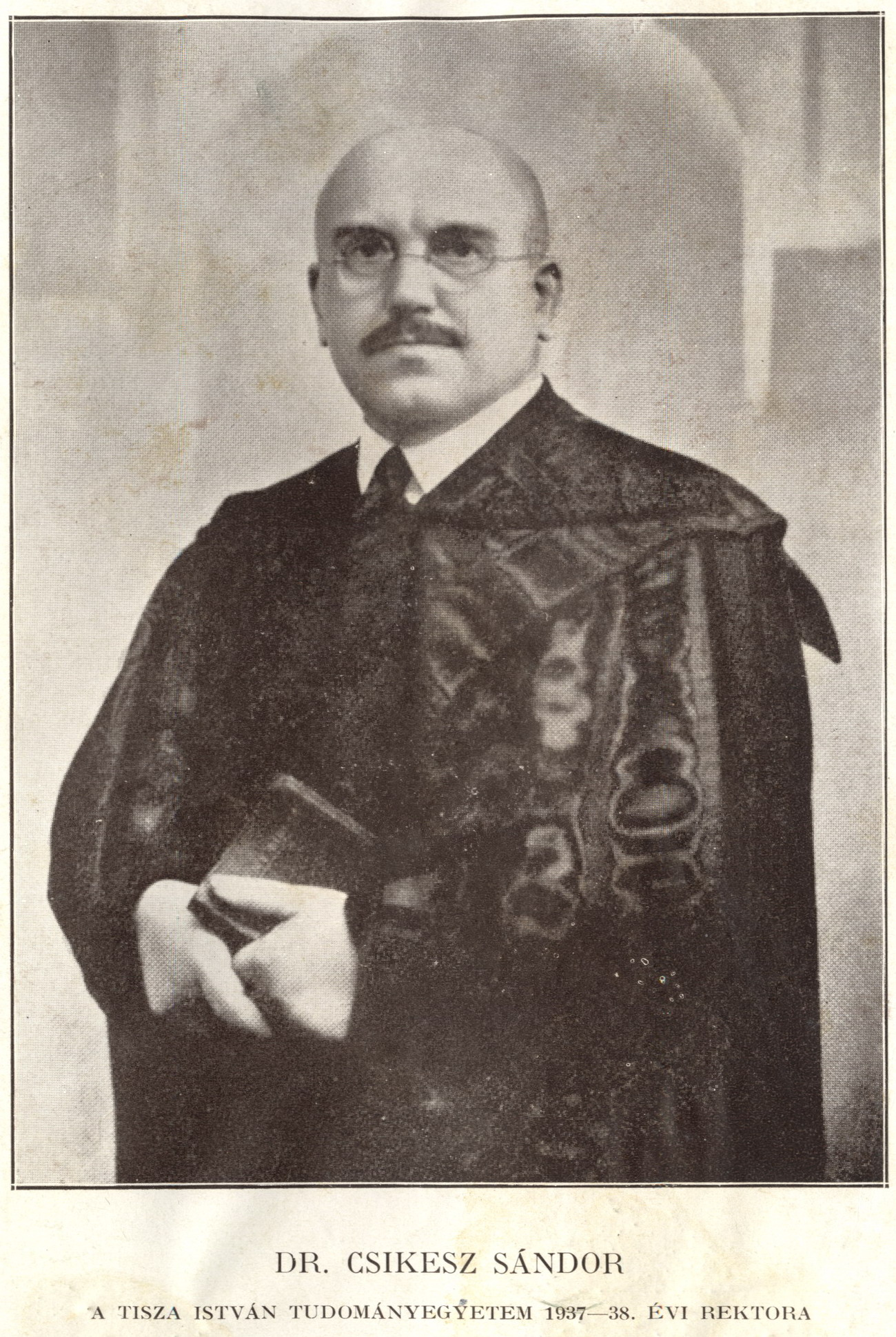 Portrait of Sándor Csikesz (1886–1940).